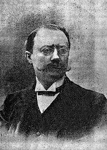 Author unknown. Portrait of Leopoldo Sabbatini published by UnionCamere Milano, Italy, ca. 1890. Freed to public domain.